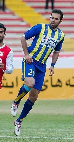 Mohammad Nosrati